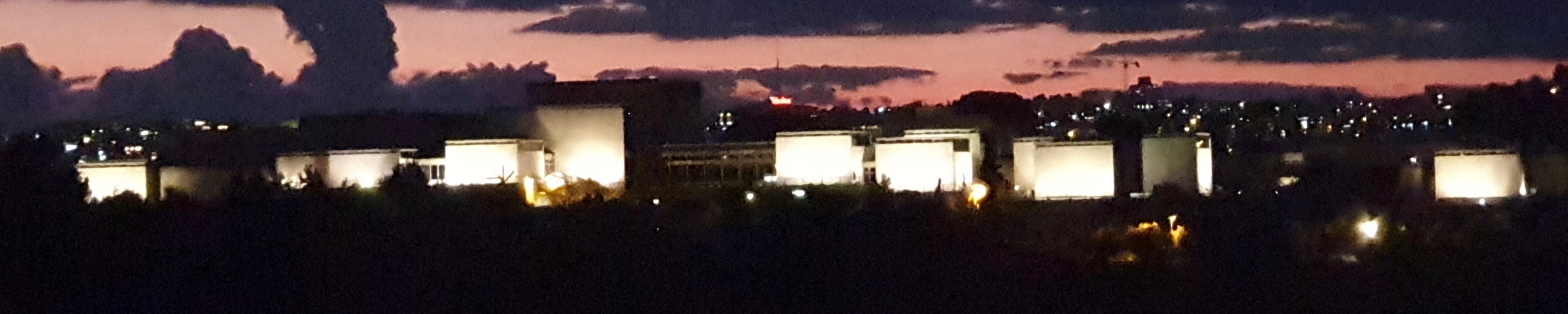 Israel museum at end of dusk